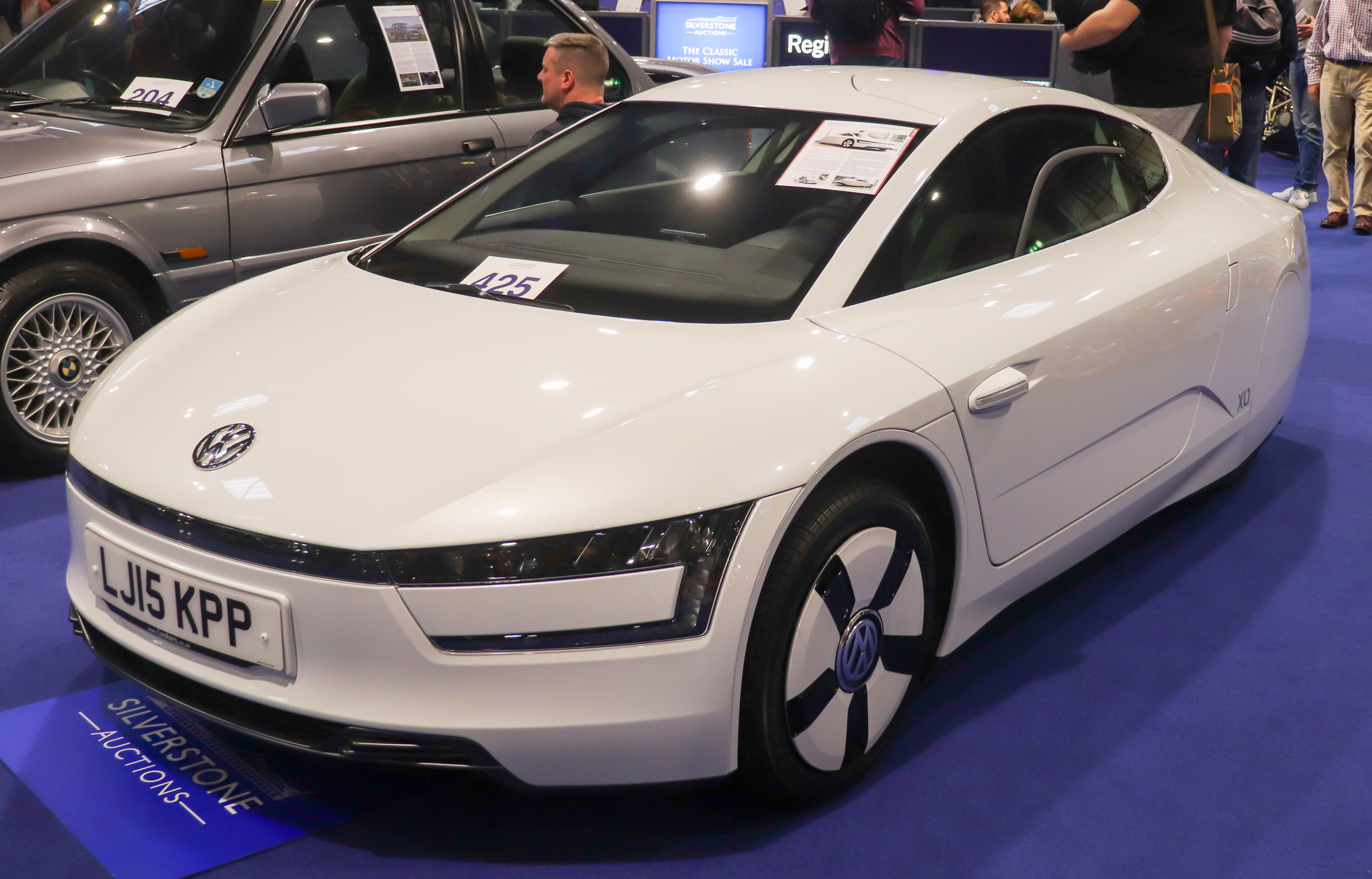 2015 Volkswagen XL1 Front Taken at the NEC Classic Motor Show 2019